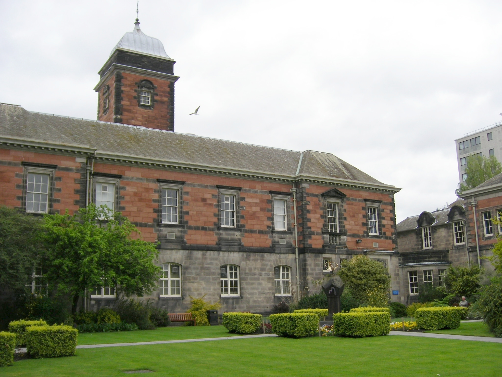 Geddes Quadrangle, Dundee University. Sundial in foreground